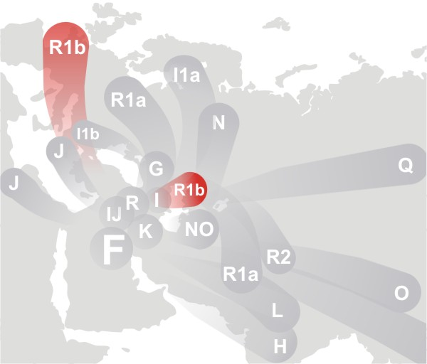 map showing the diversion of Haplogroup R1b (Y-DNA) and its descendants.